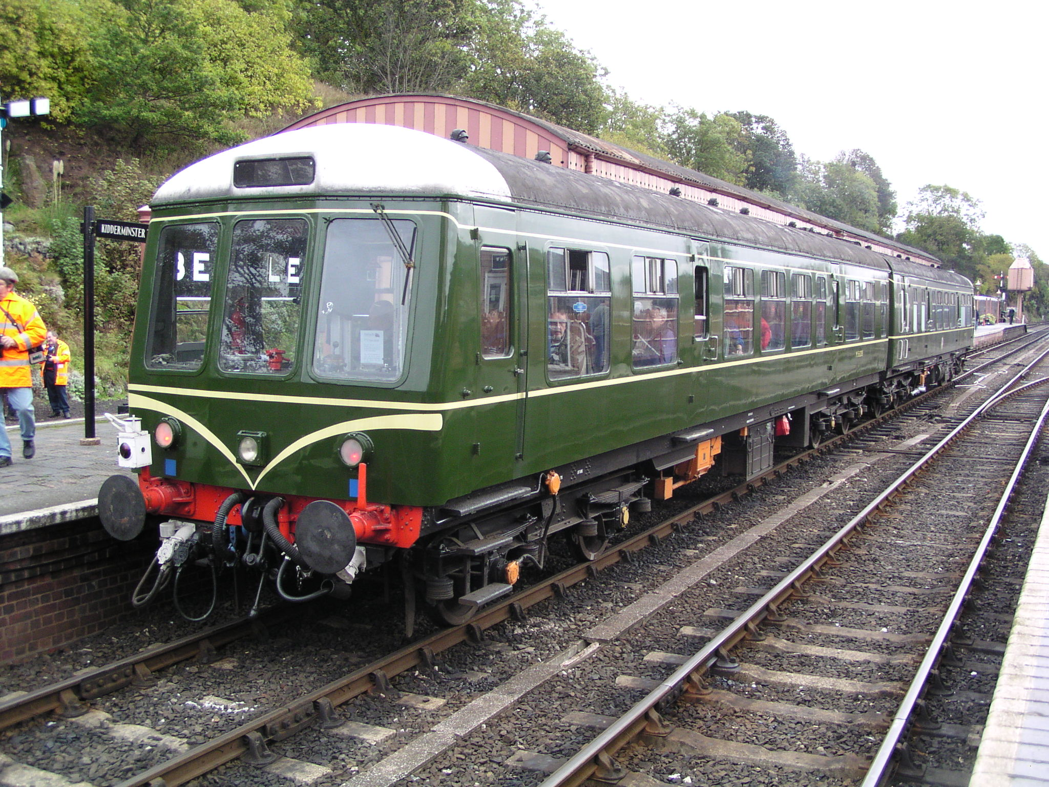 BR Class 108 DMU, nos. 56208 and 51935, at Bewdley on 15th October 2004. This unit is preserved on the Severn Valley Railway.